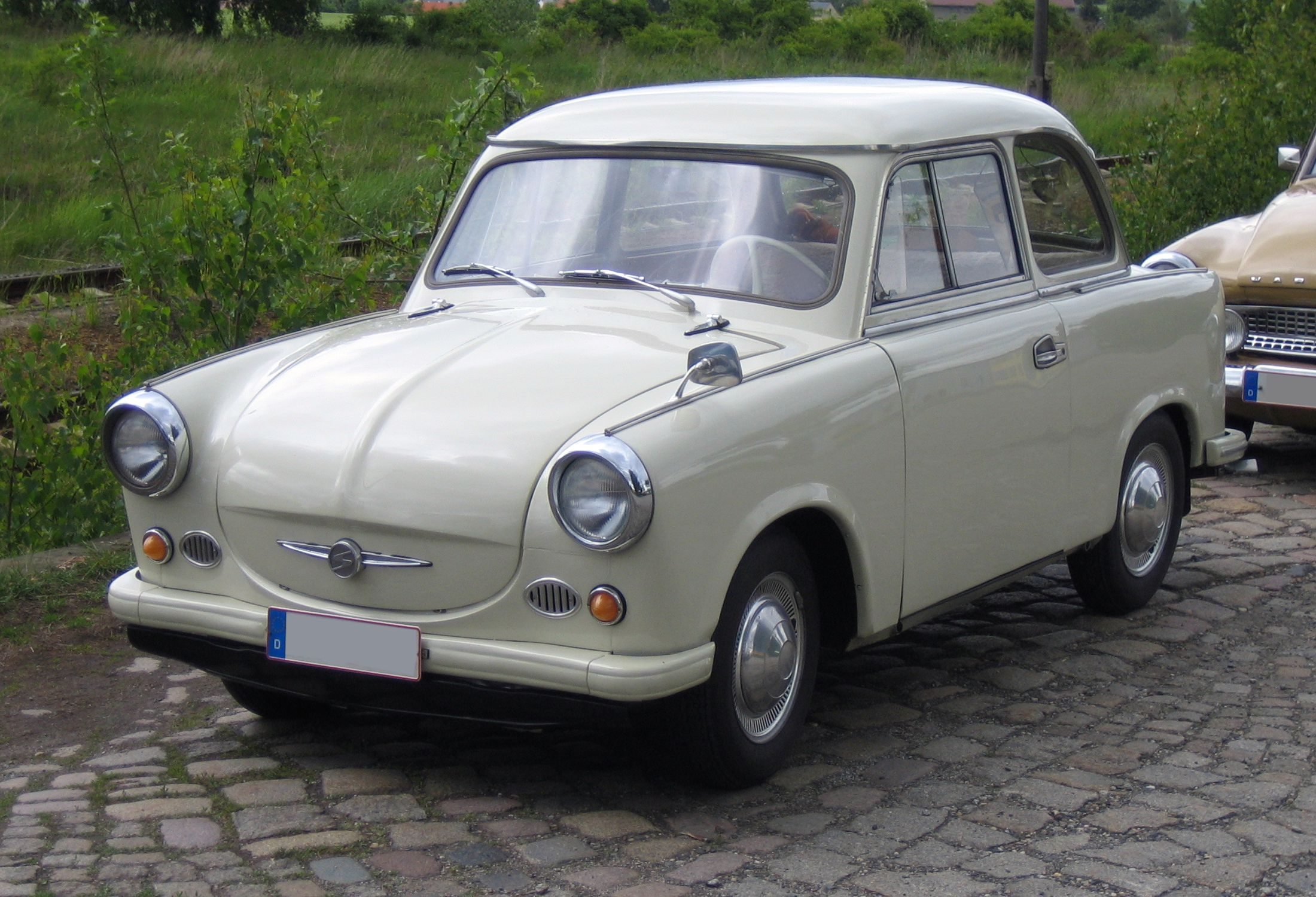 Trabant P50 (front view)